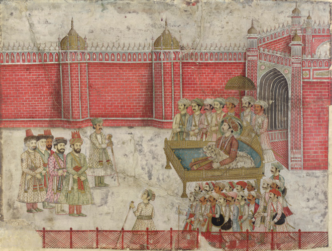 A Nawab of Awadh, Lucknow, India. 19th century. Color and gold on paper.